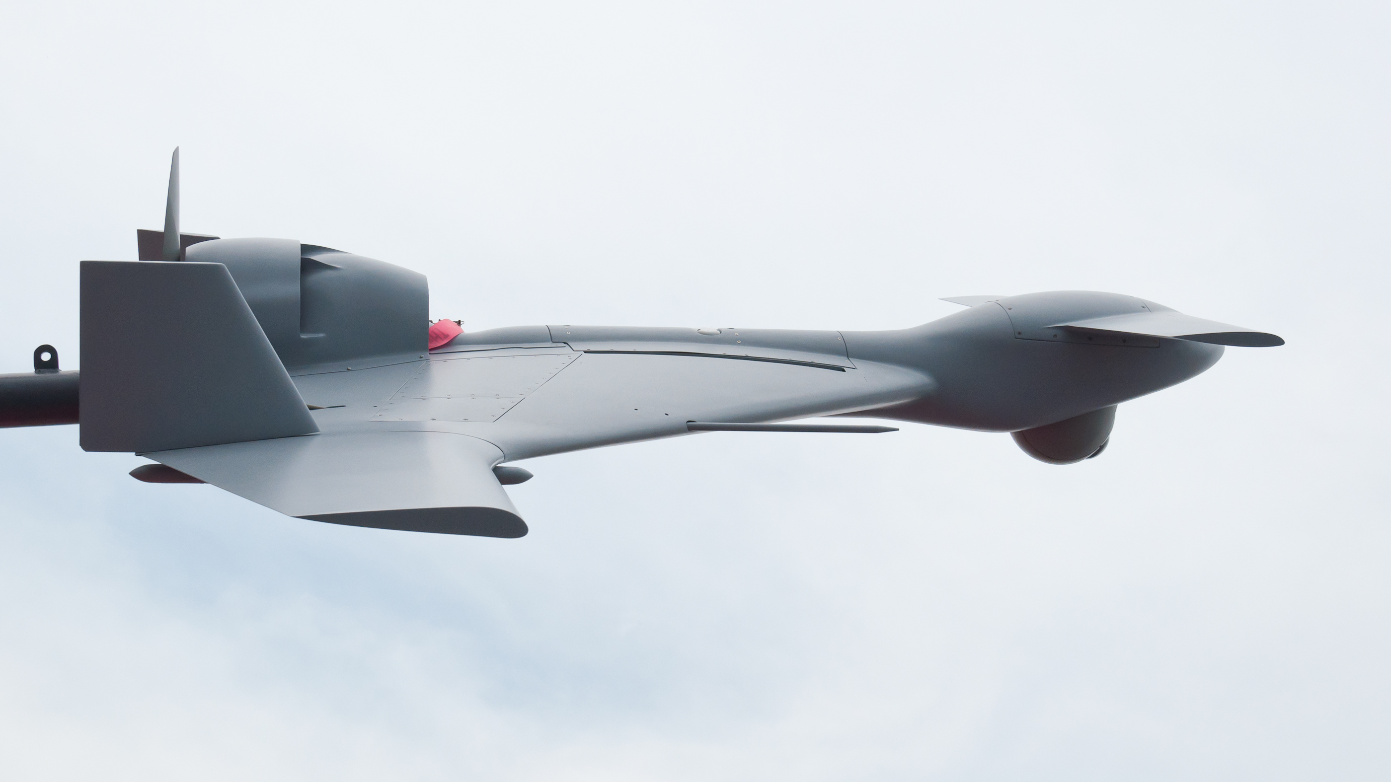 IAI Harop UAV at Paris Air Show 2013.